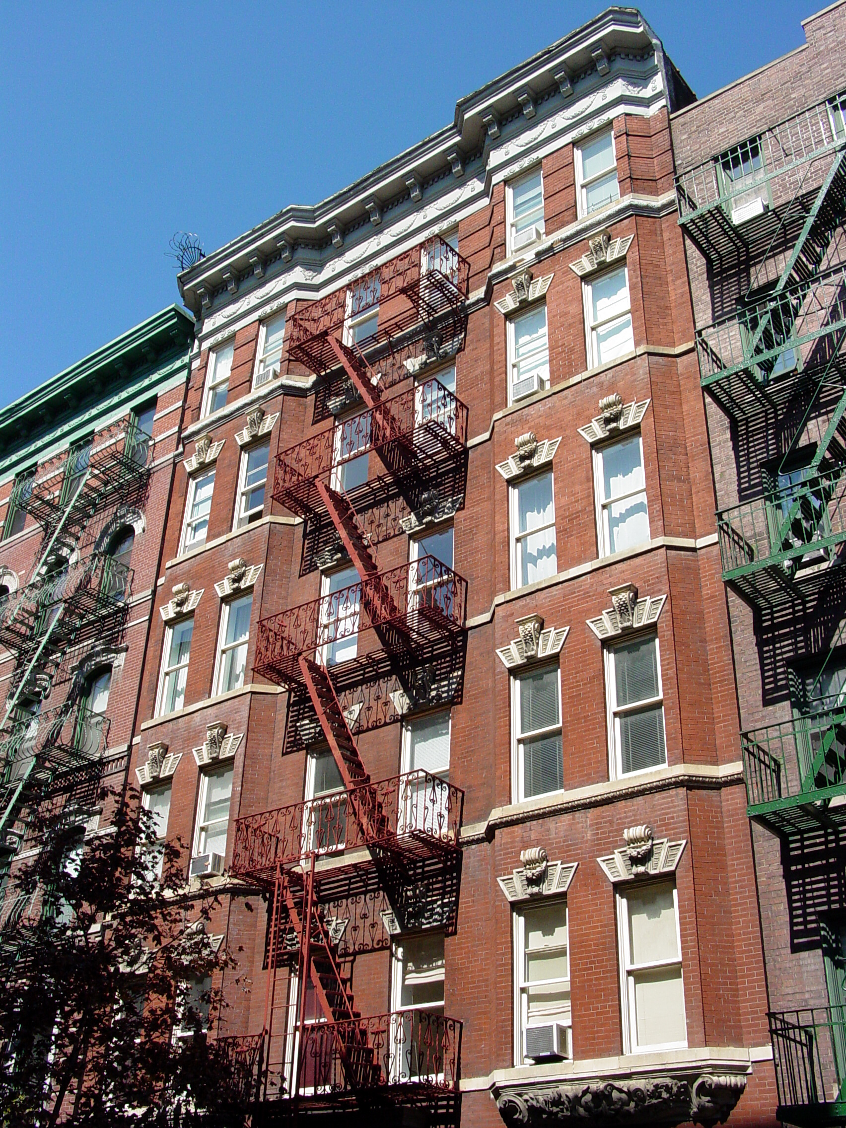 Brownstone building on the Lower East Side in New York City. September 2005.